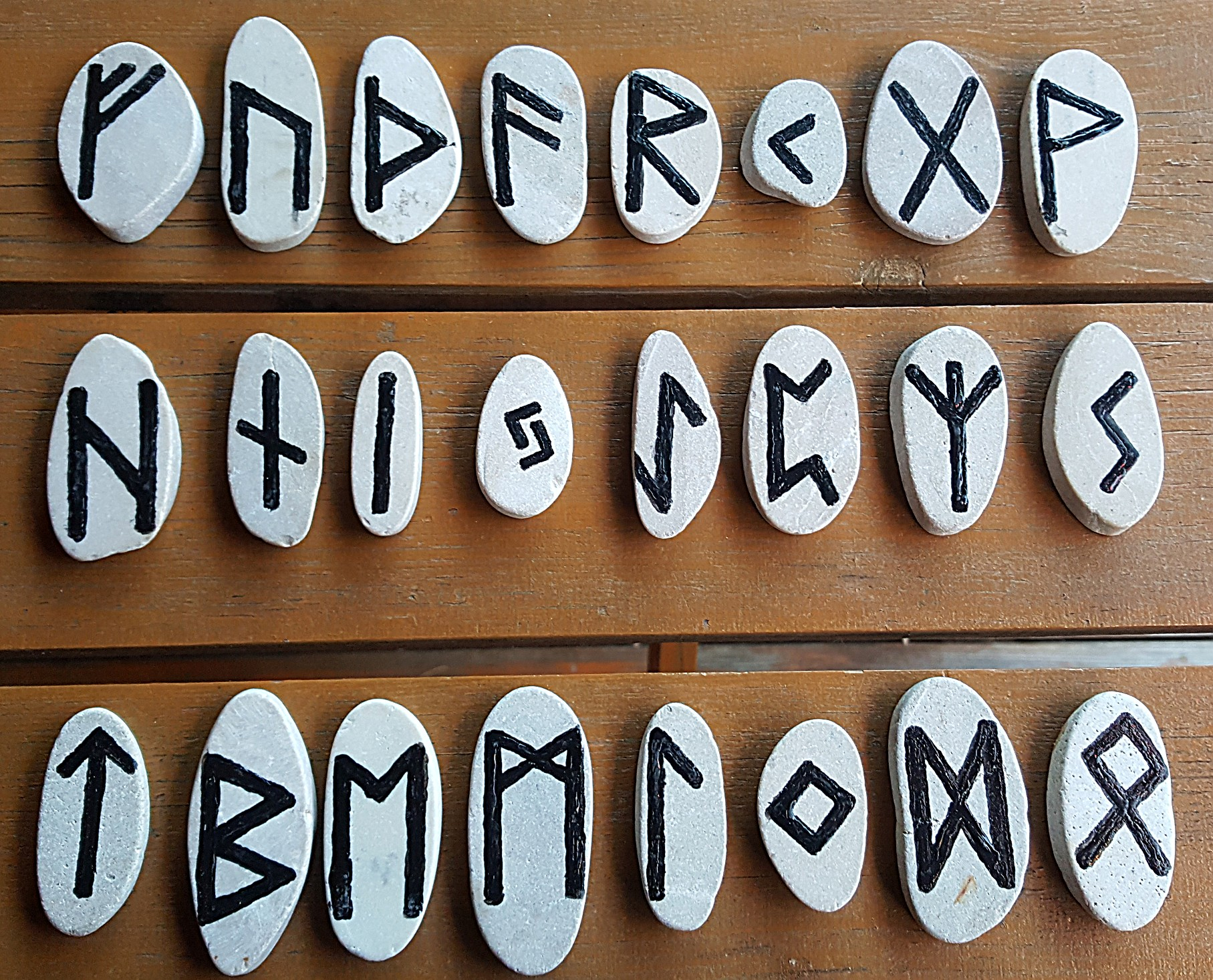 The runes of the Elder Futhark are painted on little flat stones. Length of the stones: 3.5 centimetres (Kaunan rune) to 6.5 centimetres (Mannaz rune). The rune stones were made in Desenzano del Garda, Italy, in August 2017.